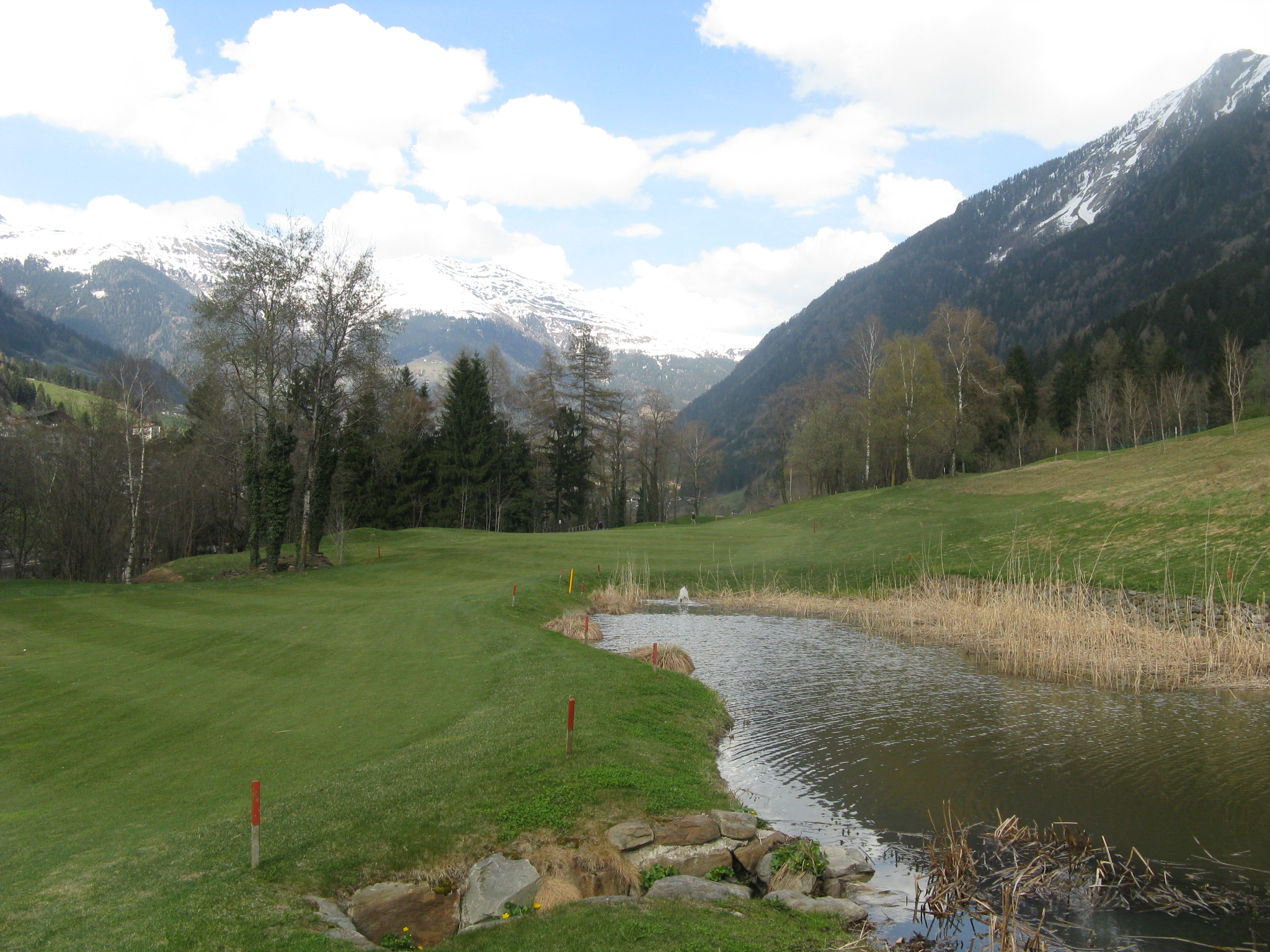 Golf Course Passeier Valley, Hole 2, near Quellenhof, South Tyrol/Italy